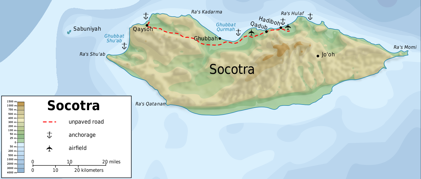 Topographic map of Socotra Island, Jemen